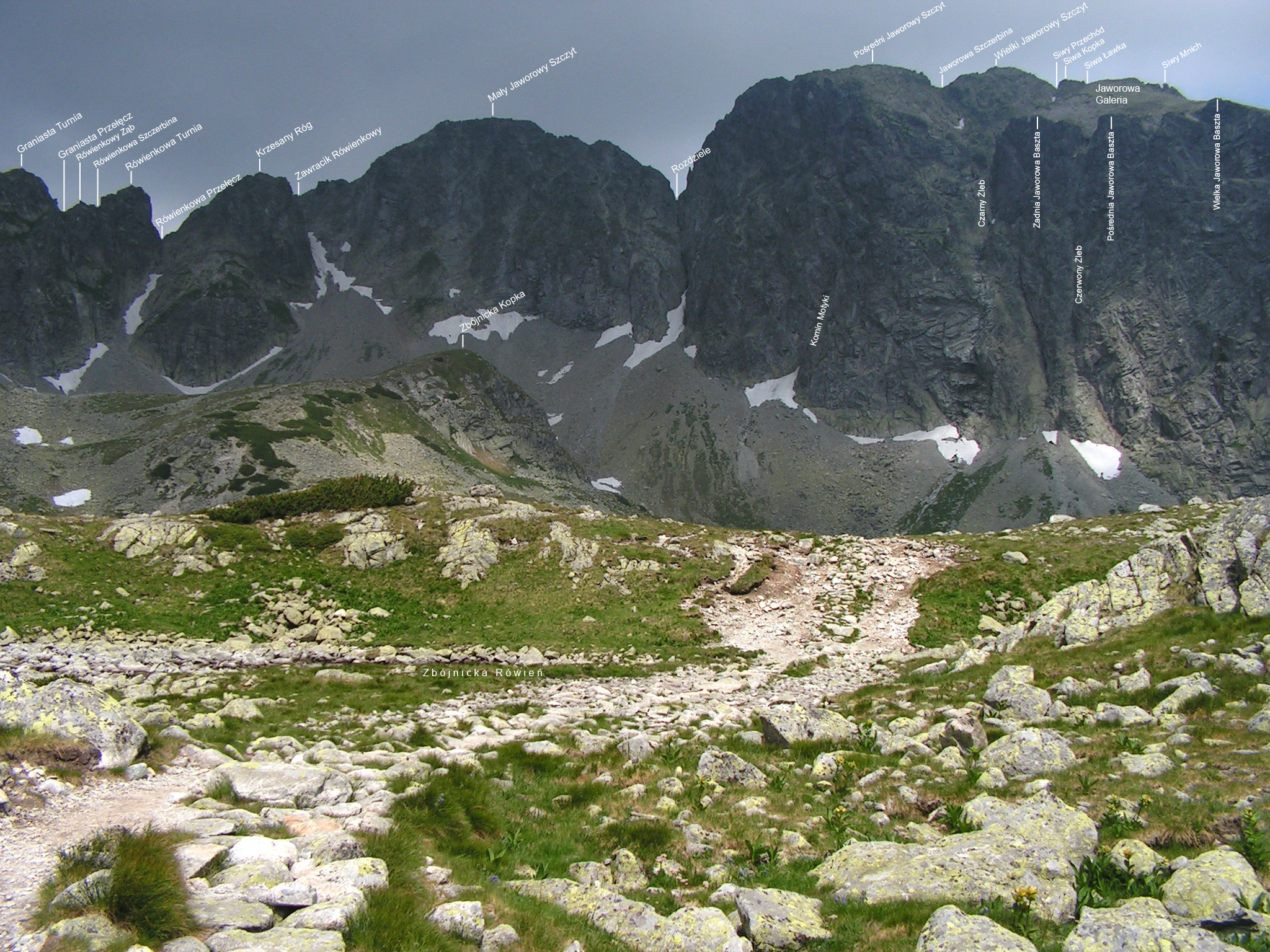 Hranatá veža, Rovienková veža, Kresaný roh, Malý Javorový štít and Javorový štít seen from Veľká Studená dolina (with polish names)